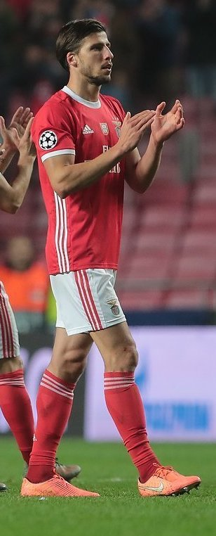 Benfica-Zenit UEFA Champions League 2019/20 (10/12/2019)